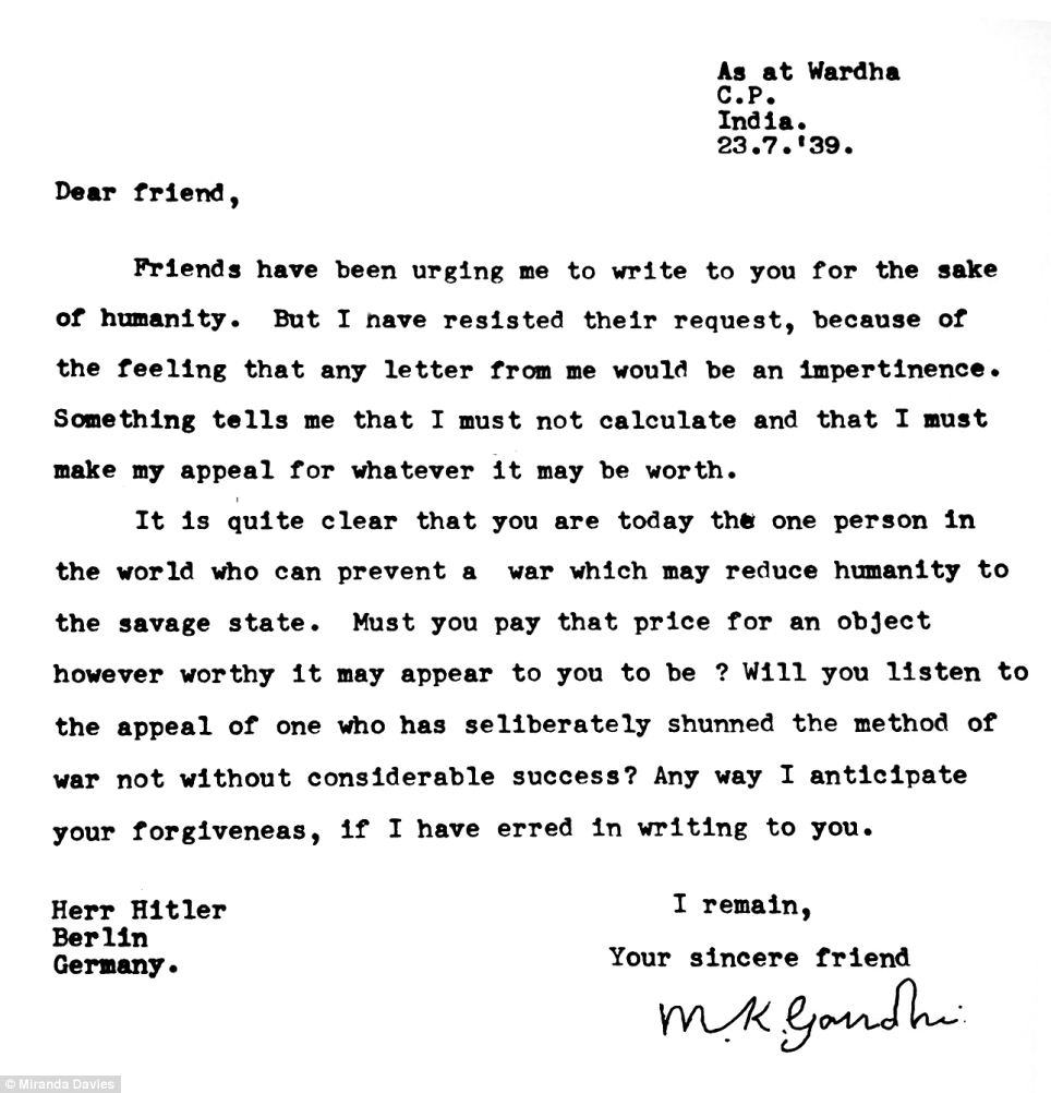 Gandhi's letter to Hitler, July 23rd, 1939.